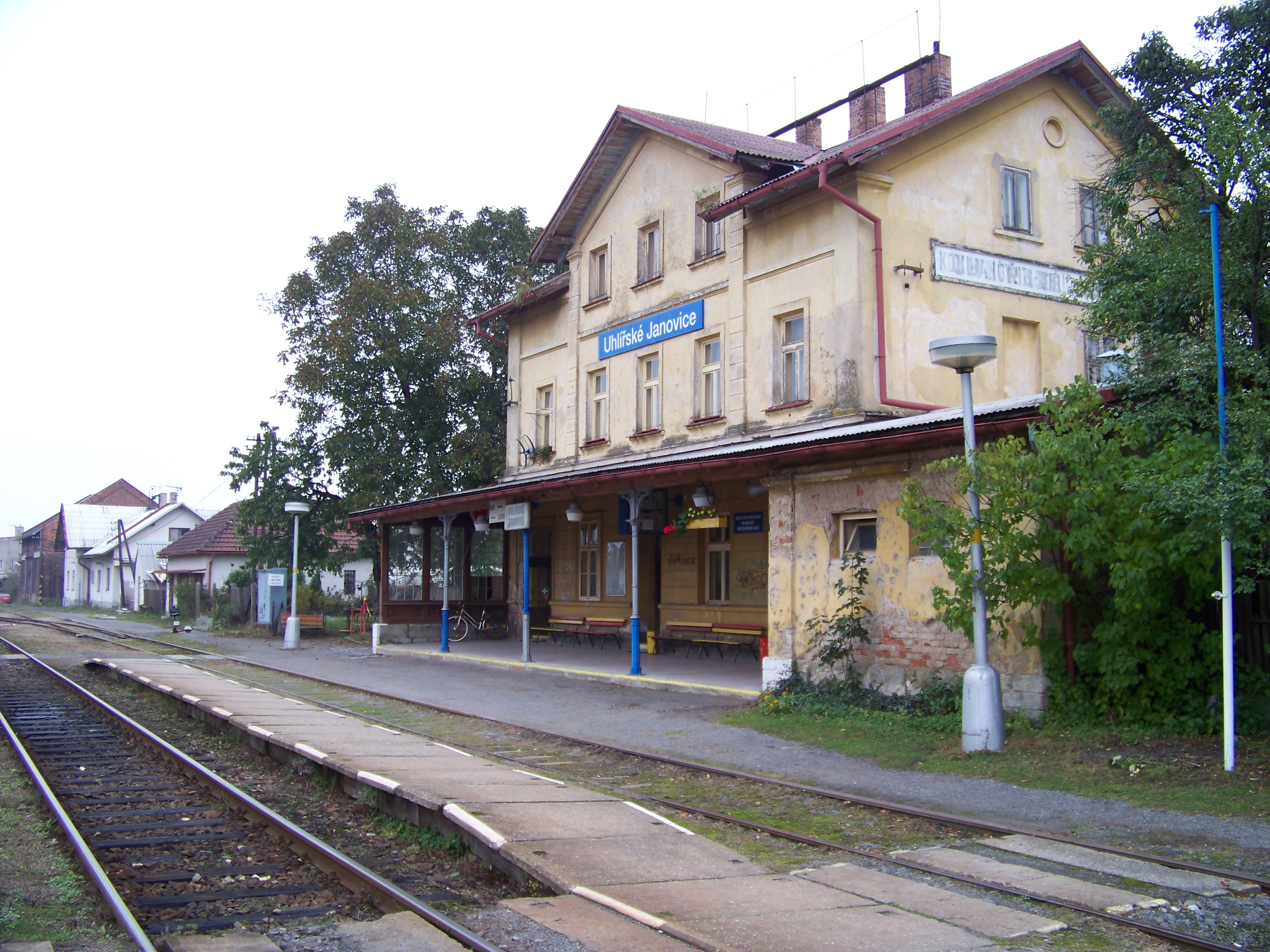 Uhlířské Janovice, Kutná Hora District, Central Bohemian Region, the Czech Republic. A train station.